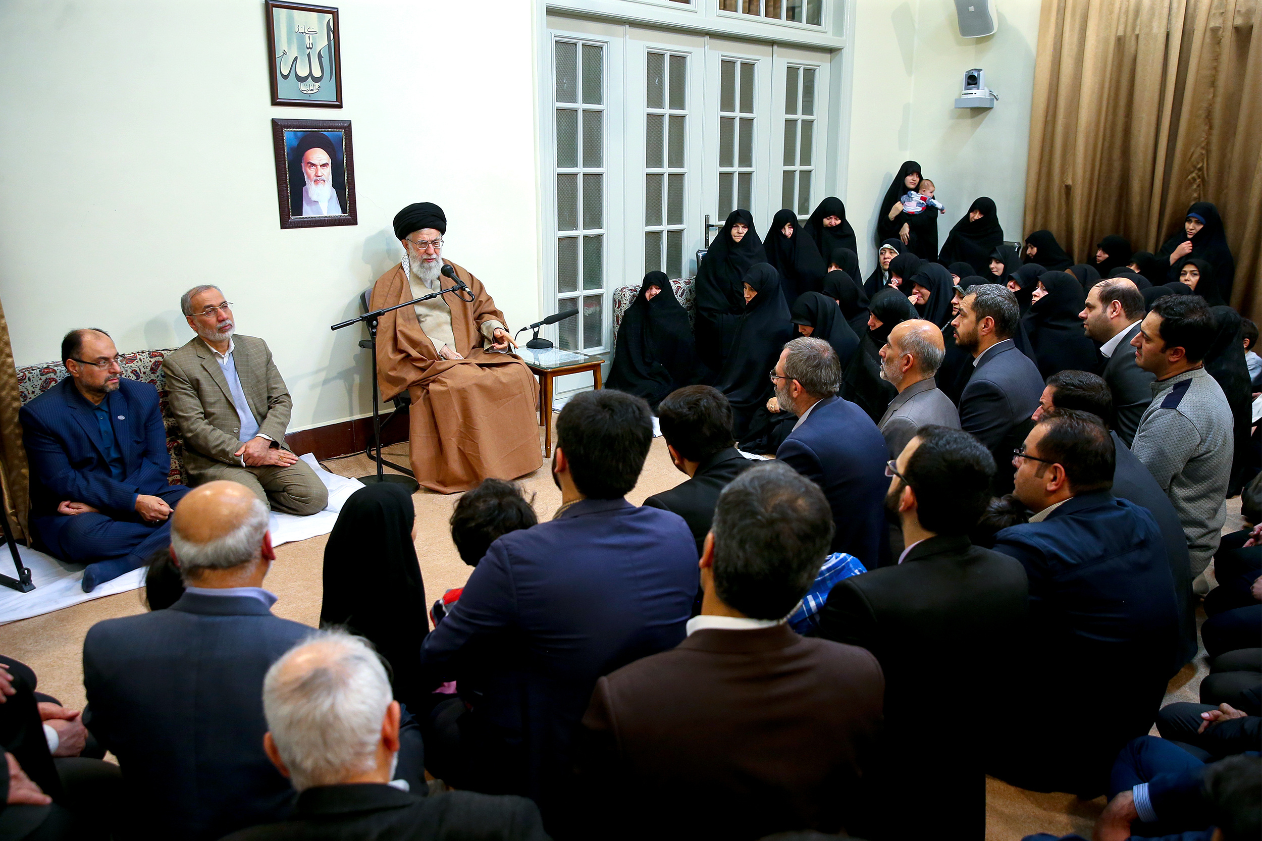 Ali Khamenei's weekly meetings with families of martyrs - Jan 2, 2018 (13961012 0938620) Ayatollah Ali Khamenei, the Supreme Leader of Iran, in the weekly meeting with a number of families of "martyrs", afternoon Jan 2, 2018, referring to Iranian protests and "the enemies' efforts to damage the Islamic system", he stated: "What prevents the enemies and their hostile actions is the spirit of courage, self-sacrifice, and faith among the people." "In recent events, the enemies of Iran united by using different tools in their disposition, including money, weapons, politics and intelligence, in order to create problems for the Islamic system." He continued, "Regarding these events [protests], I have more to say, which I will share with dear Iranian people at the right time."